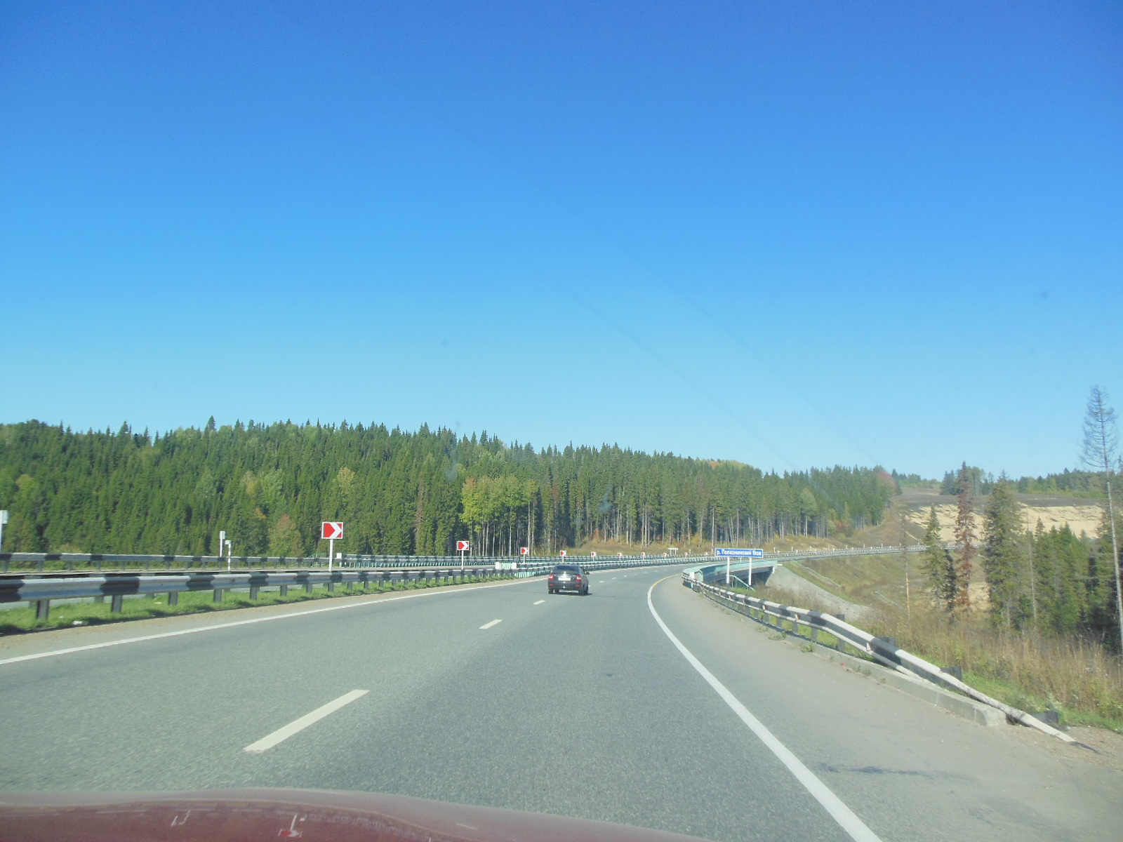 Bridge on the River Polazninskiy Vozh